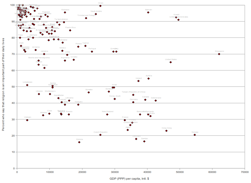 Importance of religion and GDP (PPP) per capita. Sources of data: GDP (PPP) per capita, Importance of religion ( Gallup Poll 2009). Importance of religion - percent who say that religion is an important part of their daily lives.